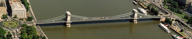 Chain-Bridge - Budapest - Hungary - Europe